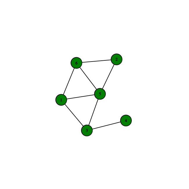 Estimating Ethnic Genetic Interests